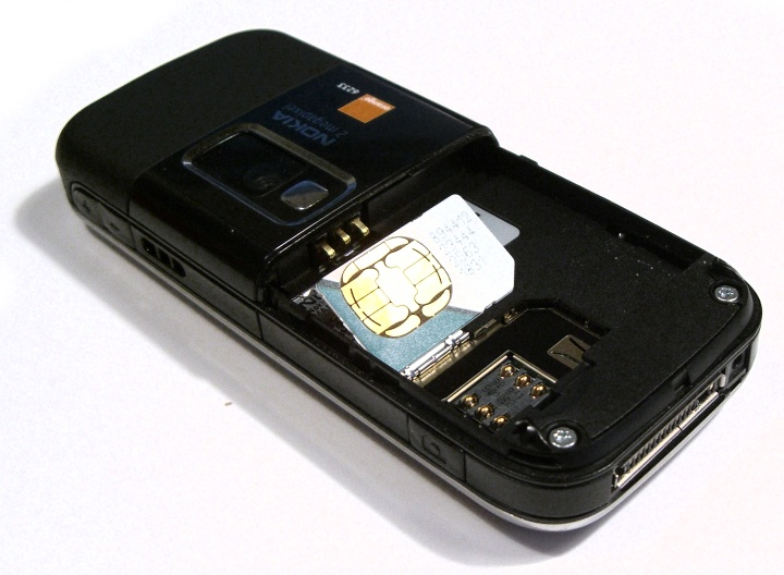 A mini SIM card next to its electrical contacts in a Nokia 6233.